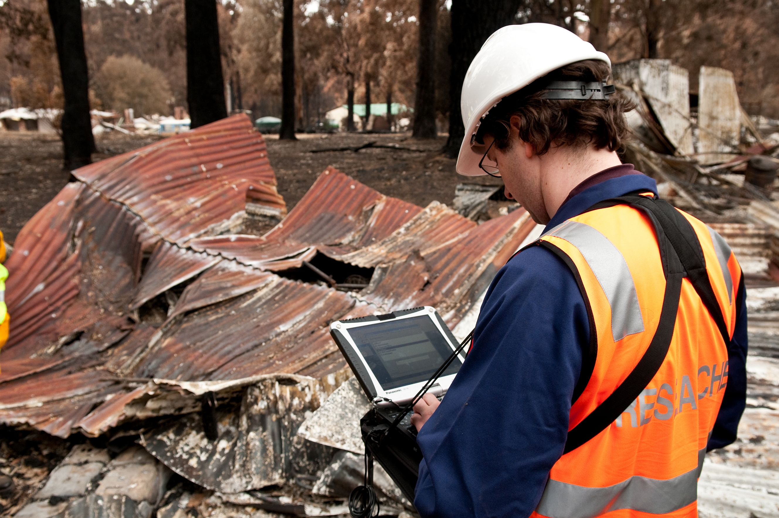 CSIRO is a participating agency in the Bushfire Cooperative Research Centre which has been looking at the key issues in the February 2009 bushfires. The CRC's Bushfire Research Task Force includes researchers from various state fire agencies and research organisations with expertise in building analysis, human behaviour, community education, bushfire behaviour, fire weather, and fire investigation. The purpose of the research is to provide fire and land management agencies with independent analyses of the factors surrounding the Victorian fires. CSIRO researchers from the Bushfire Dynamics and Applications Group, the Bushfire Urban Design project and the Remote Sensing team, will be involved with two areas of research: strategic fire behaviour - how the fires moved across different landscapes and different vegetation and under variable weather conditionsbuilding (infrastructure) and planning issues - patterns of loss and patterns of survival of build